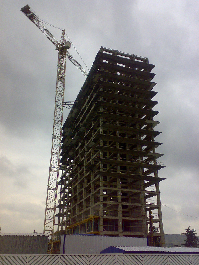 transforming to Radisson Iveria Tbilisi. Visit for more details